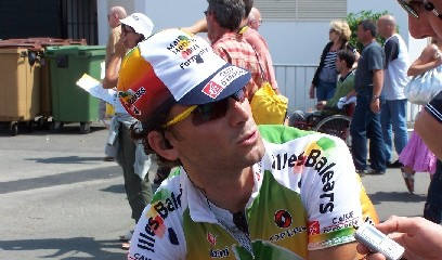 Spanish road racer Alejandro Valverde in the 2005 edition of the Tour de France. Image obtained from released under permission of said team. 13:38, 2 August 2005 Julius.kusuma 408x240 (42043 bytes) (Spanish road racer Alejandro Valverde in the 2005 edition of the Tour de France . Image obtained from released under permission of said team. GFDL )